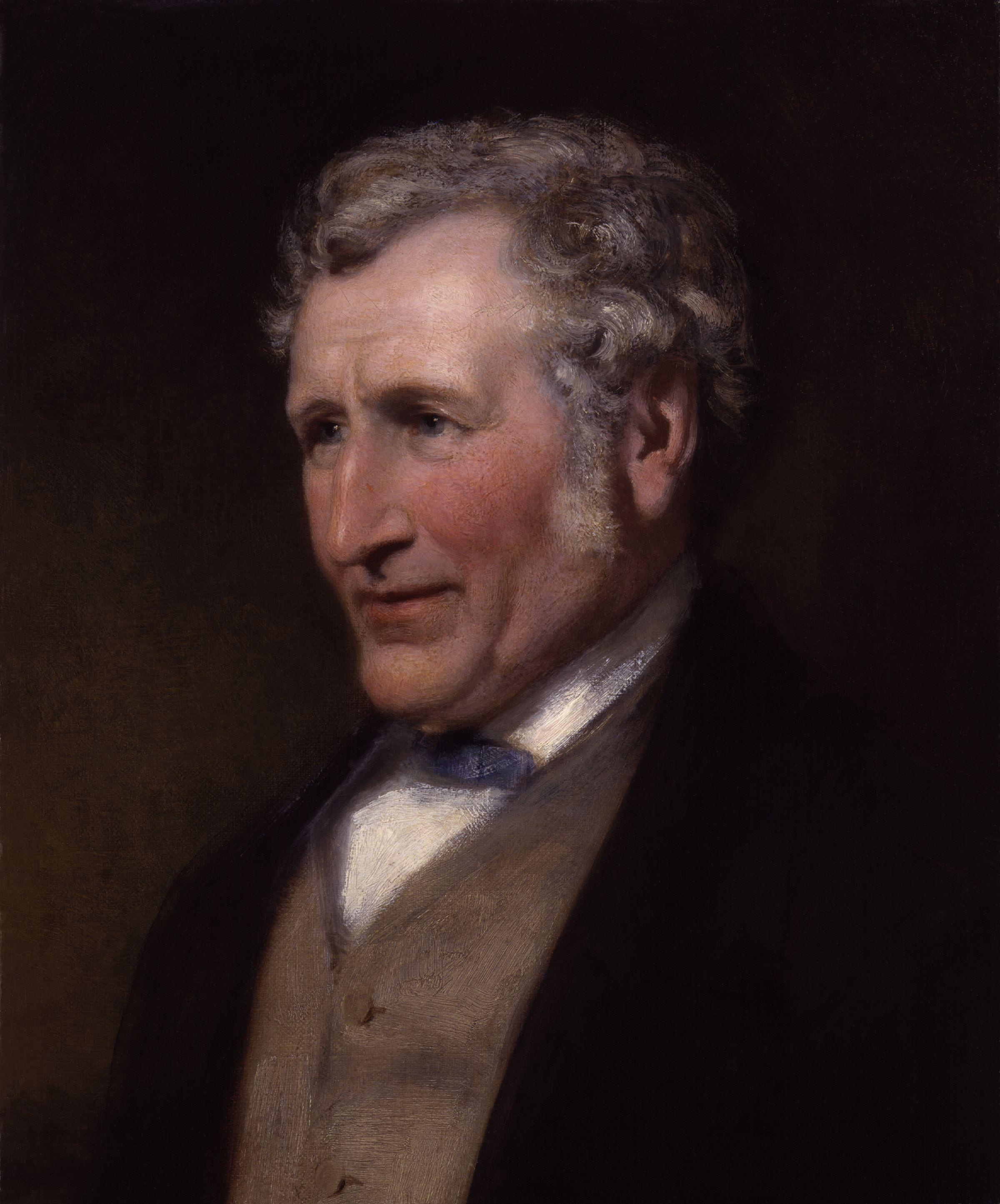 James Hall Nasmyth, by George Bernard O'Neill (died 1917). All images in this batch have been confirmed as author died before 1939 according to the official death date listed by the NPG.